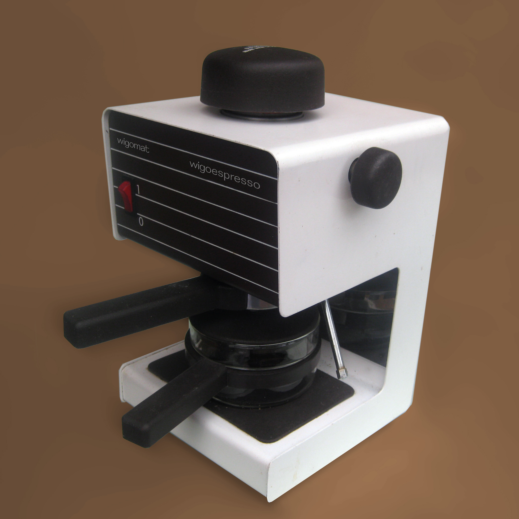 Steam-coffee-machine Wigomat Wigoespresso (1975). It works only with percolation without a pump